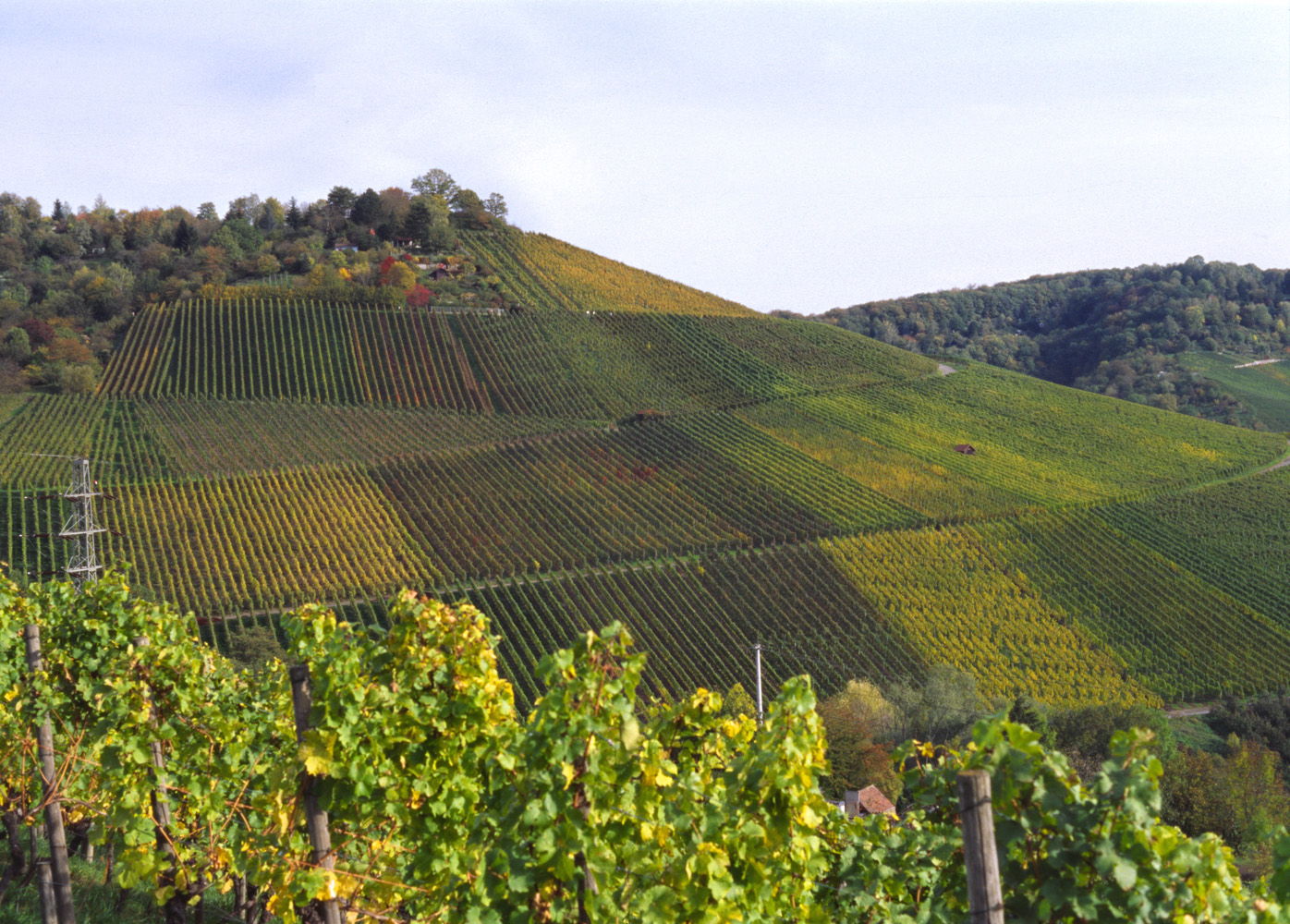 Vineyard, Stuttgart-Uhlbach, Baden-Württemberg, Germany